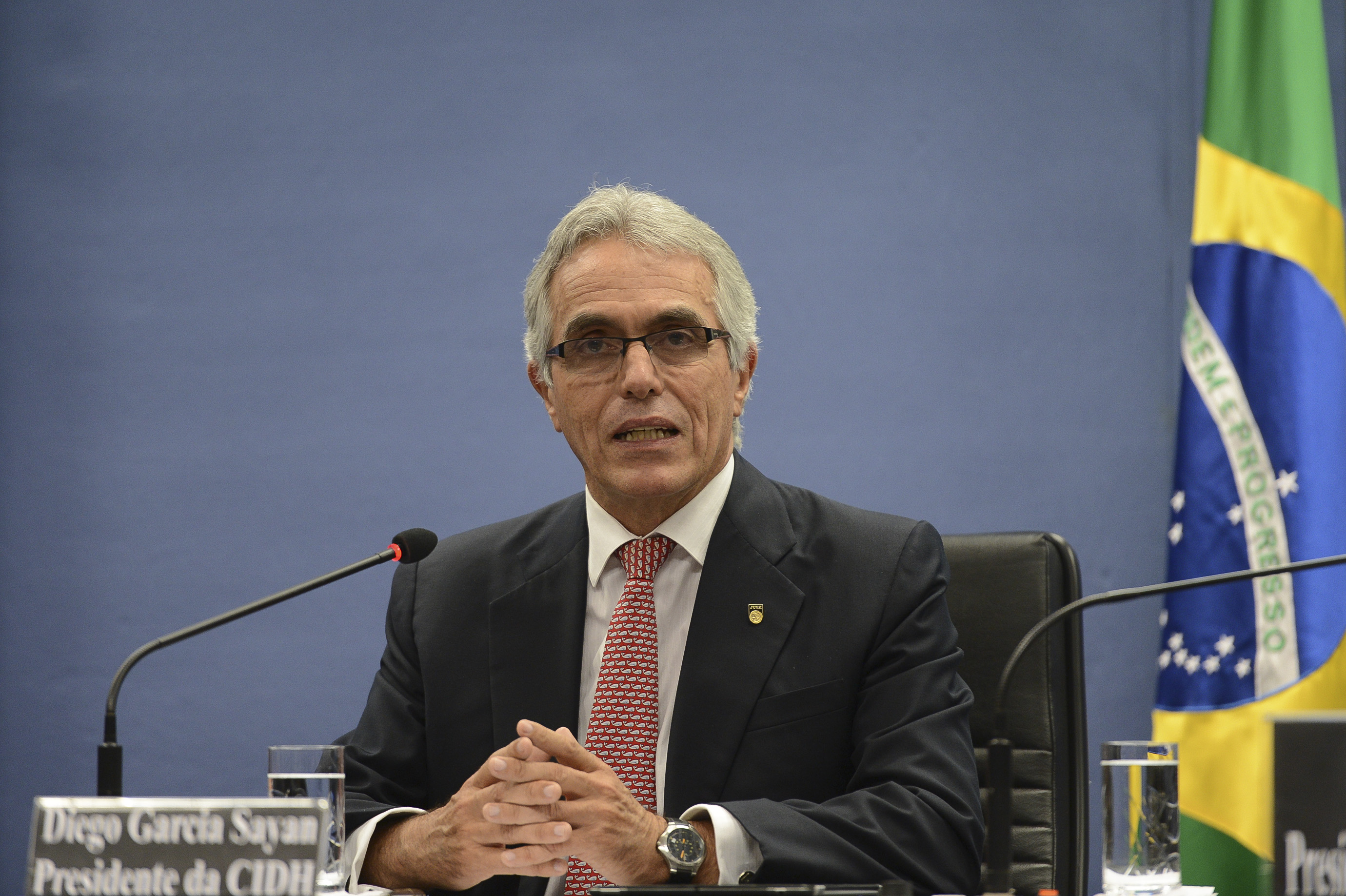 Diego Garcia-Sayán, president of the Inter-American Court of Human Rights.